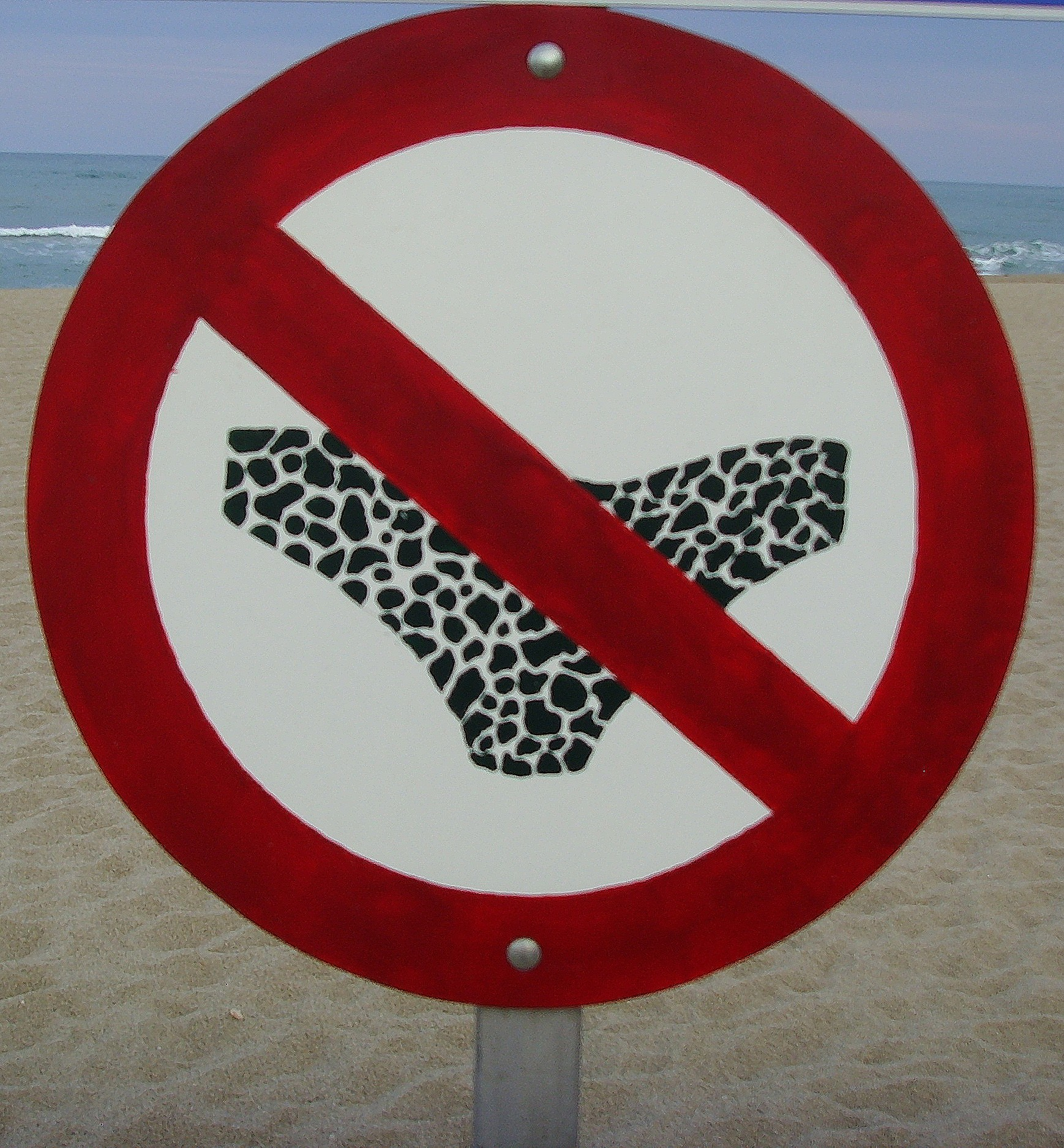 Naturist beach of Port Leucate, Languedoc-Roussillon, France: bathing trunks are not allowed here